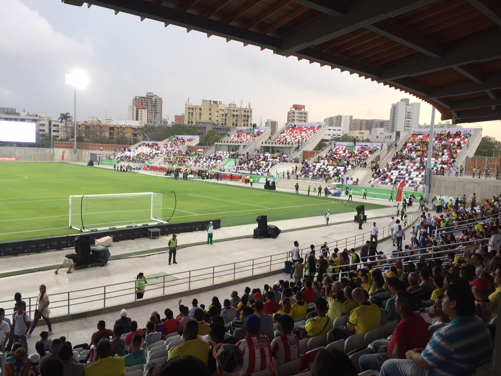 Western stands